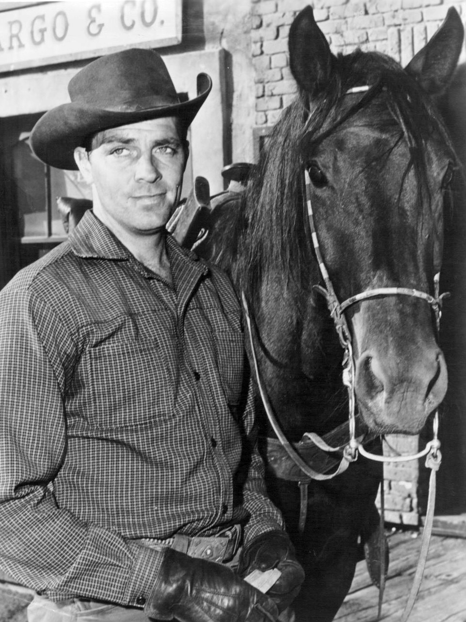 Photo of Dale Robertson as Jim Hardie from the Western television series Tales of Wells Fargo. The item has no copyright markings on it as can be seen in the links above.